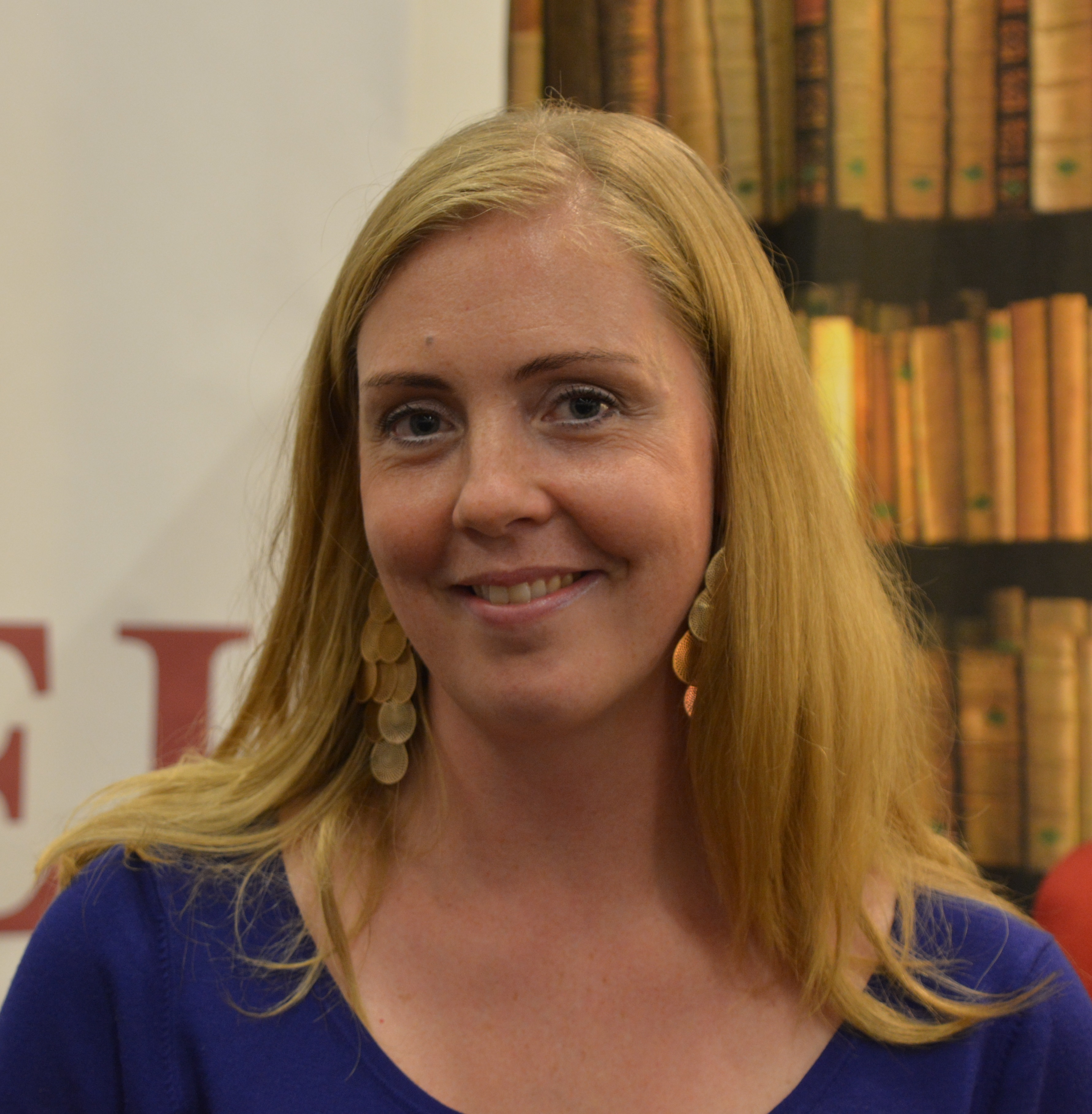 Caroline Eriksson på Bokmässan i Göteborg 2015